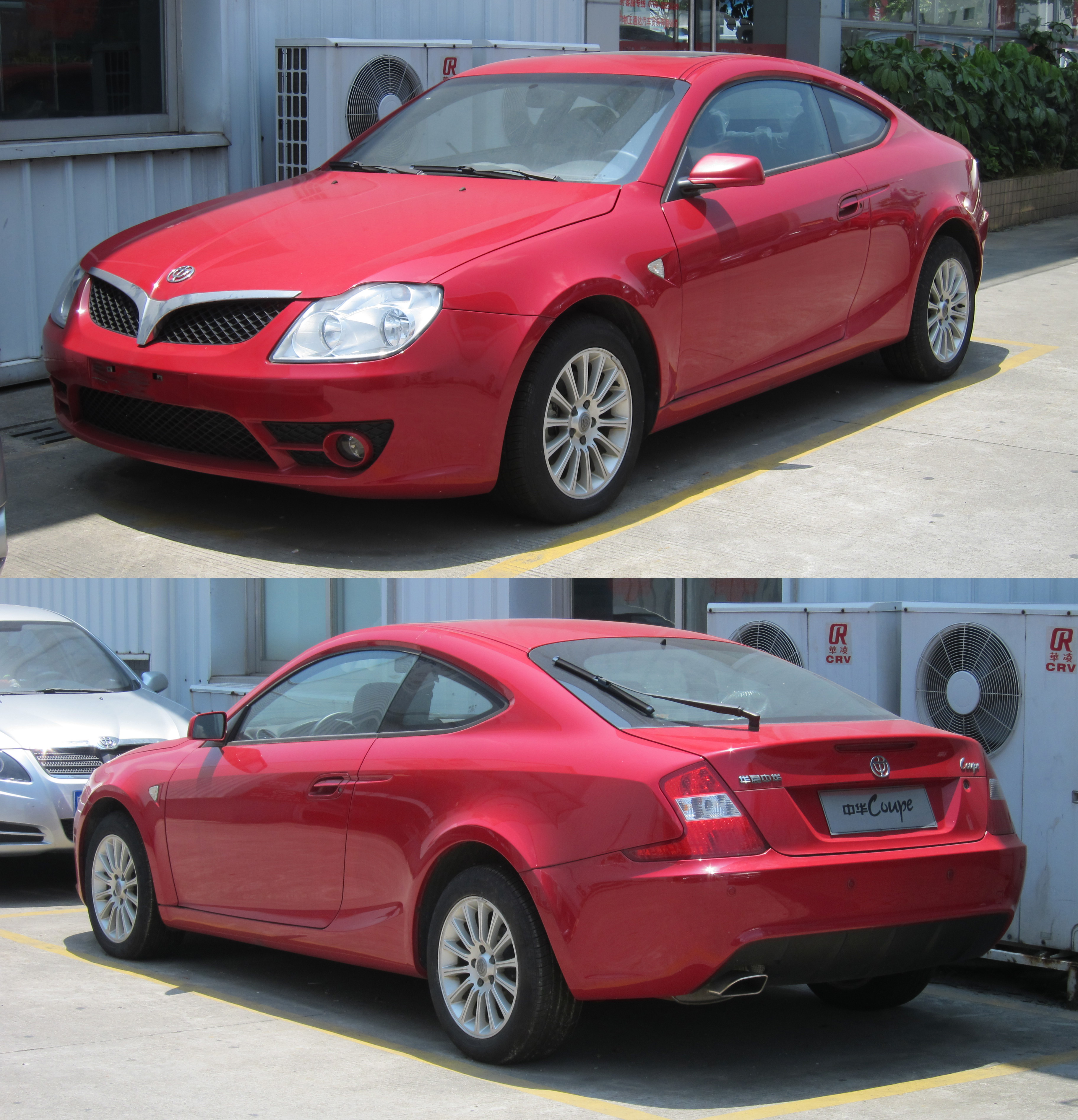 China’s Brilliance Auto 2010 Coupe